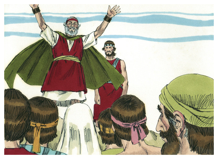 Biblical illustration of Book of Deuteronomy Chapter 1